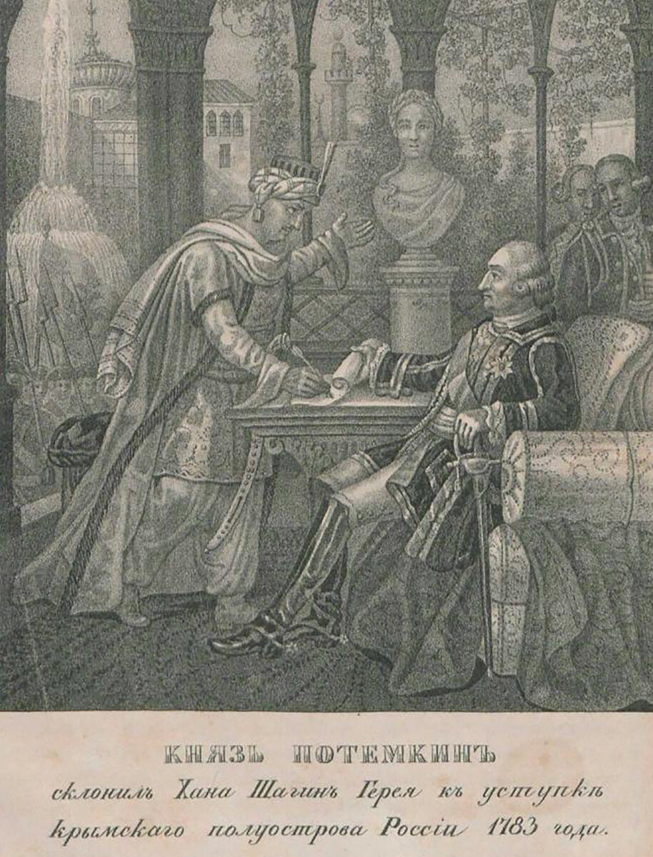 Prince Potemkin accepts the abdication of the last Crimean Khan